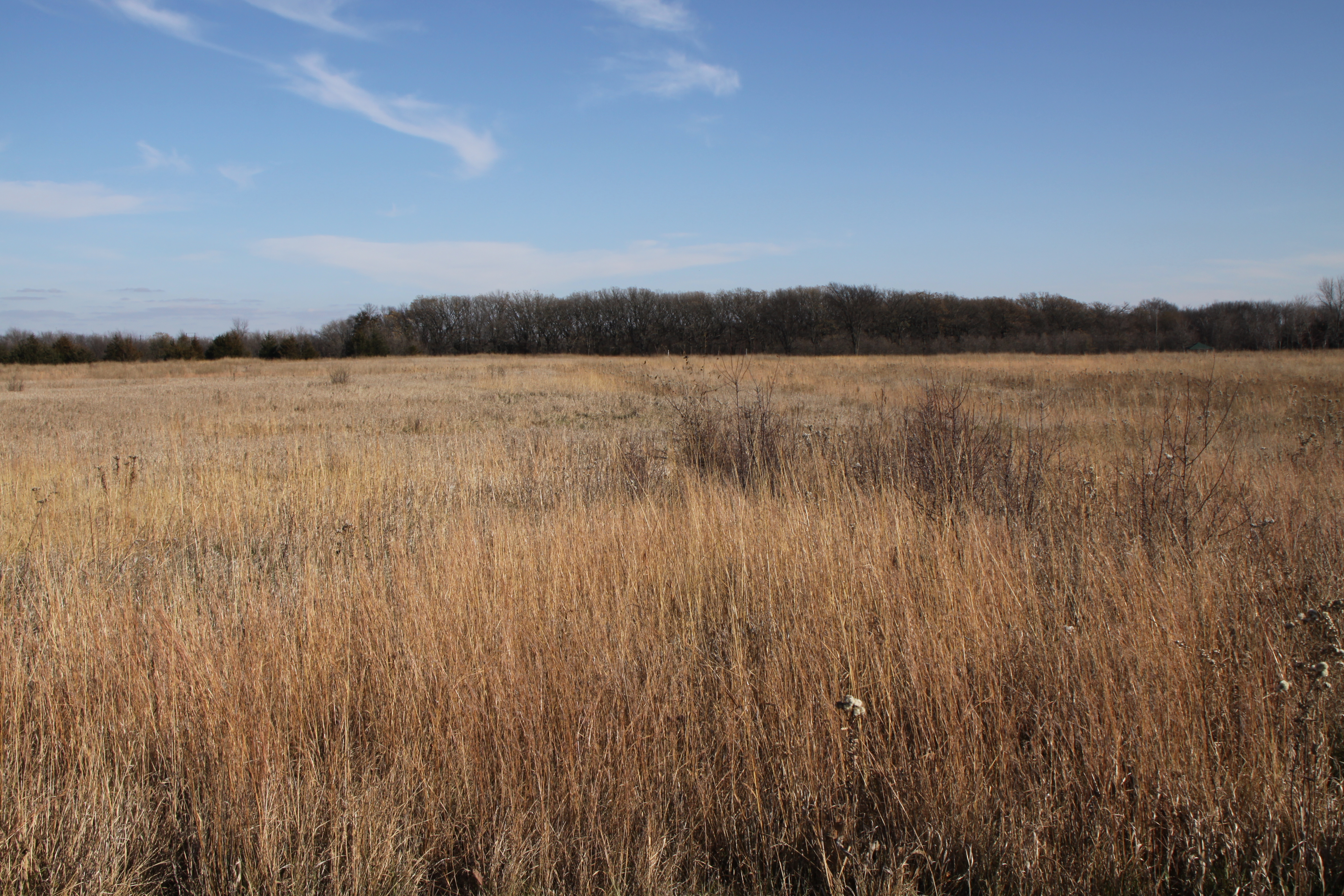 View of Birch Coulee Battlefield, Renville County, Minnesota, USA